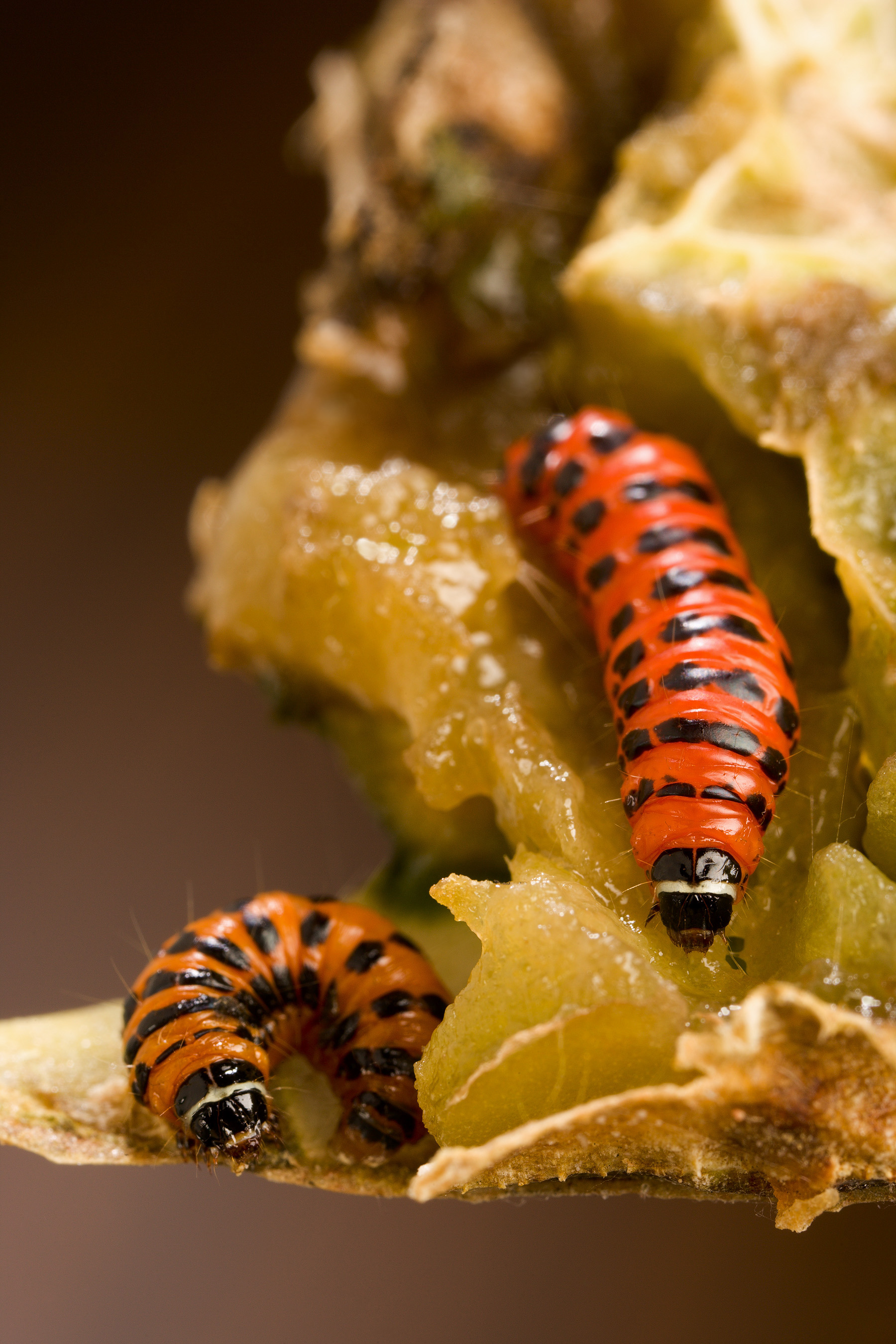 Larvae of the invasive cactus moth, Cactoblastis cactorum. This pest can attack all species of prickly pear cacti (Opuntia spp.) in North America and can completely destroy a cactus plant.